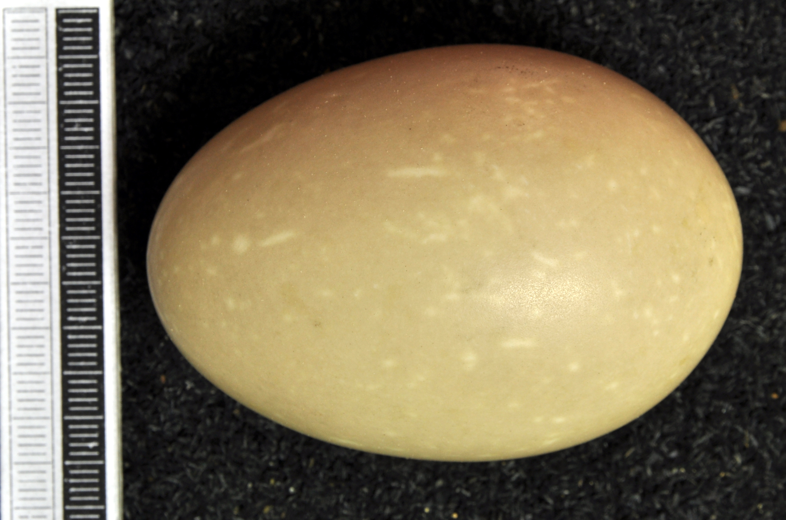 Greater scaup Aythya marila , egg, Coll. Museum Wiesbaden